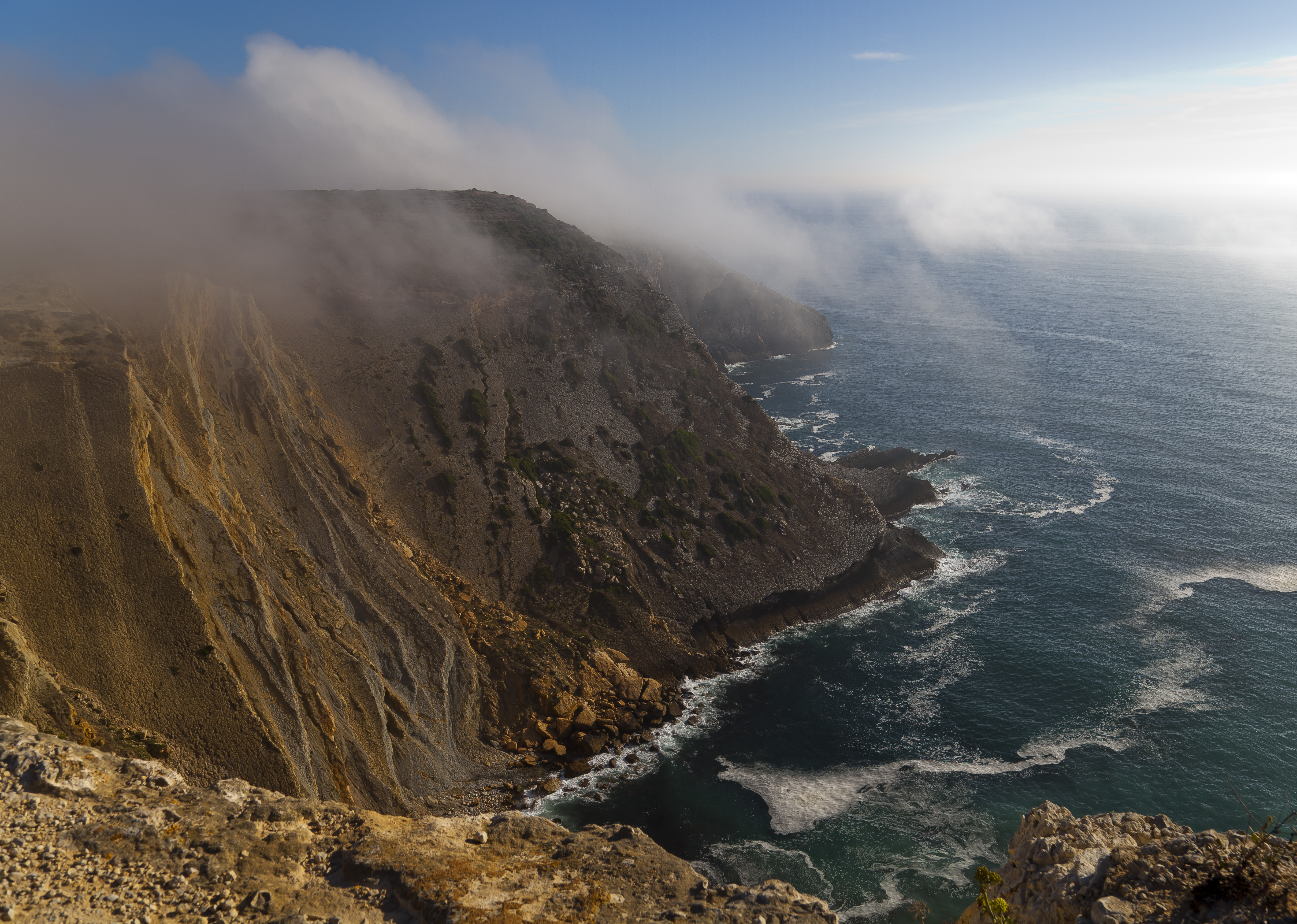 Cape Espichel, Portugal